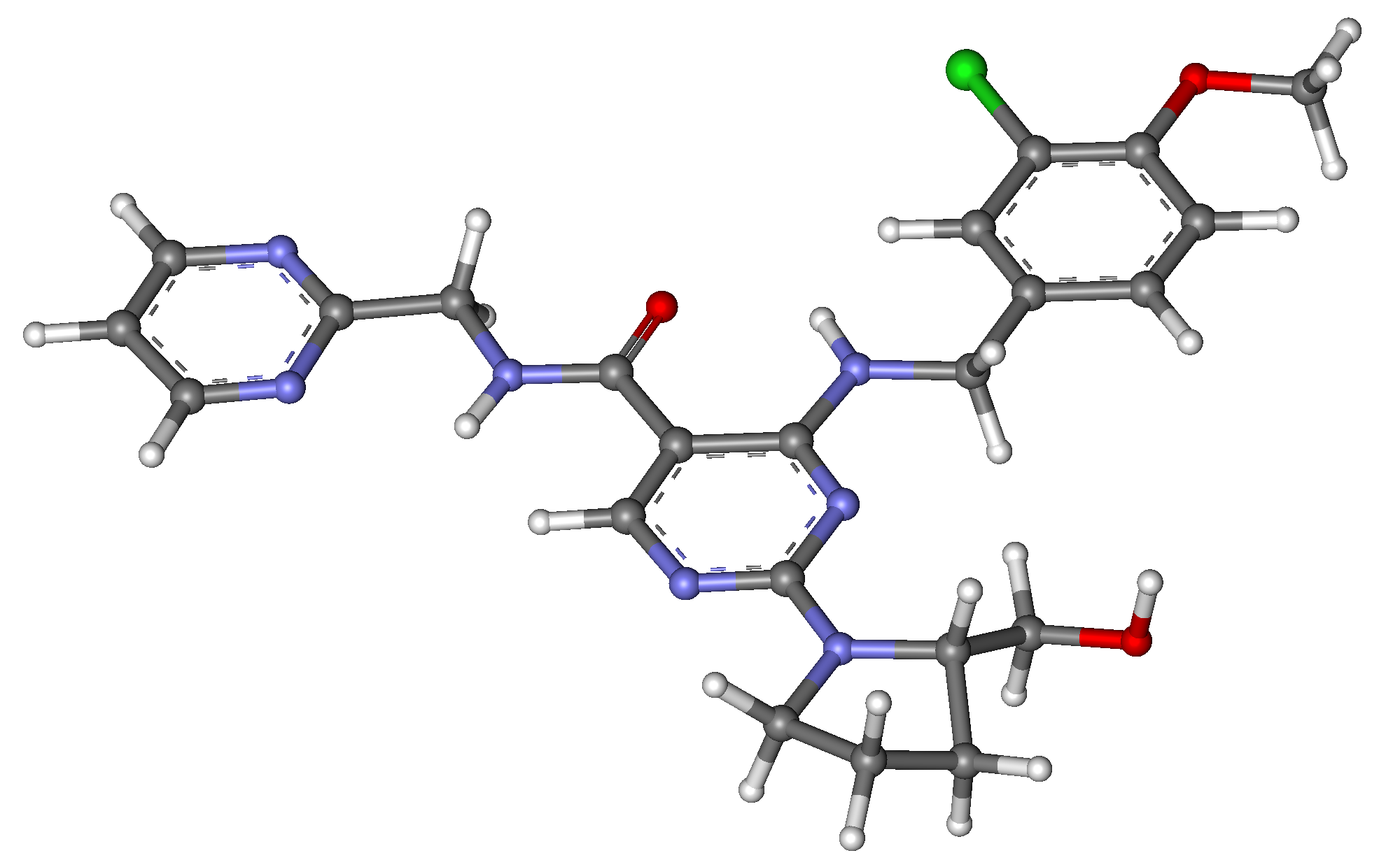 Ball-and-stick model of avanafil molecule. The structure is taken from ChemSpider. ID 8045620